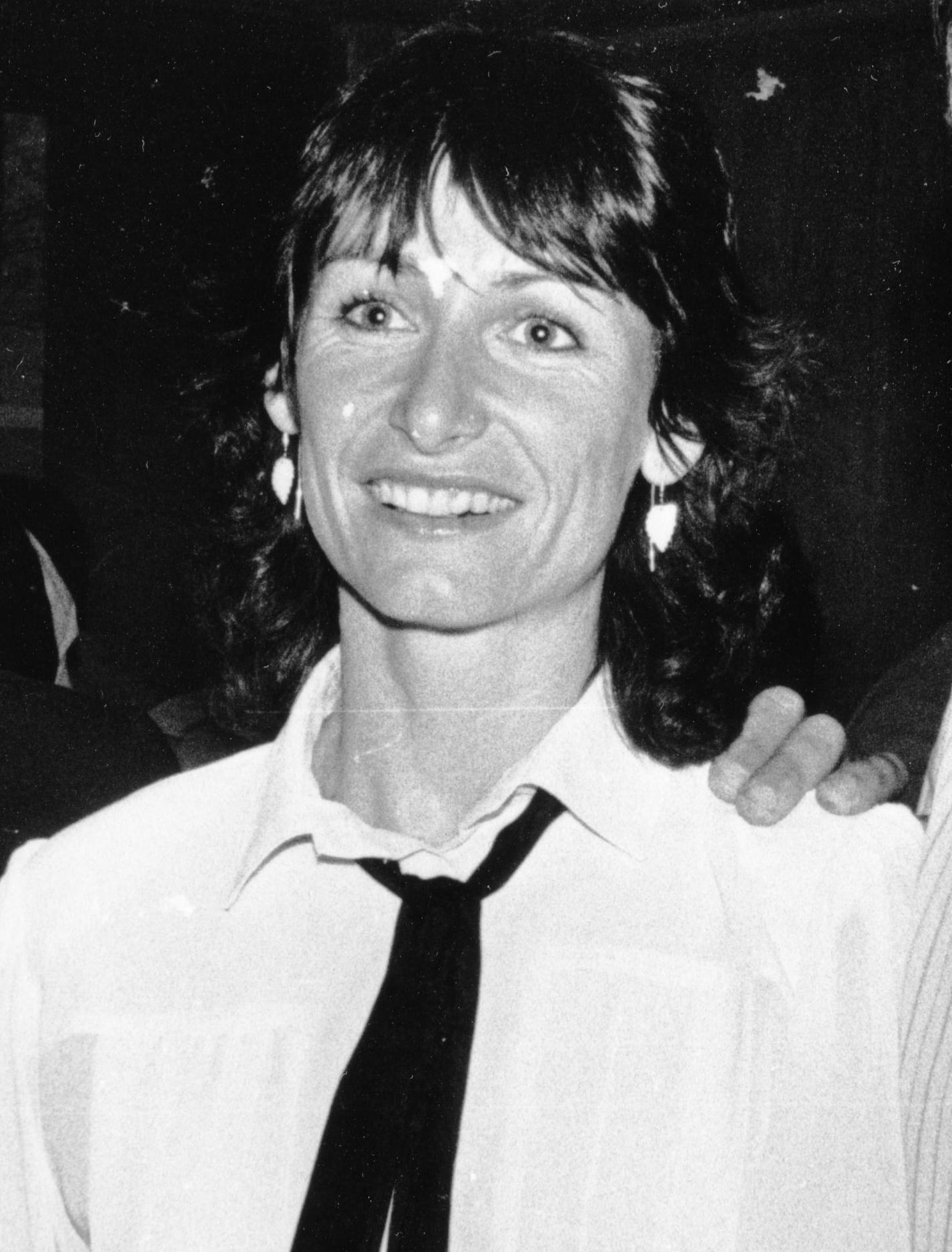 Title: Unidentified man, Boston Marathon winner Lorraine Moller, Mayor Raymond L. Flynn Creator: Mayor's Office - City Photographer Date: circa 1984 Source: Mayor Raymond L. Flynn records, Collection #0246.001 File name: RF_097 Rights: Copyright City of Boston Citation: Mayor Raymond L. Flynn records, Collection #0246.001, City of Boston Archives, Boston